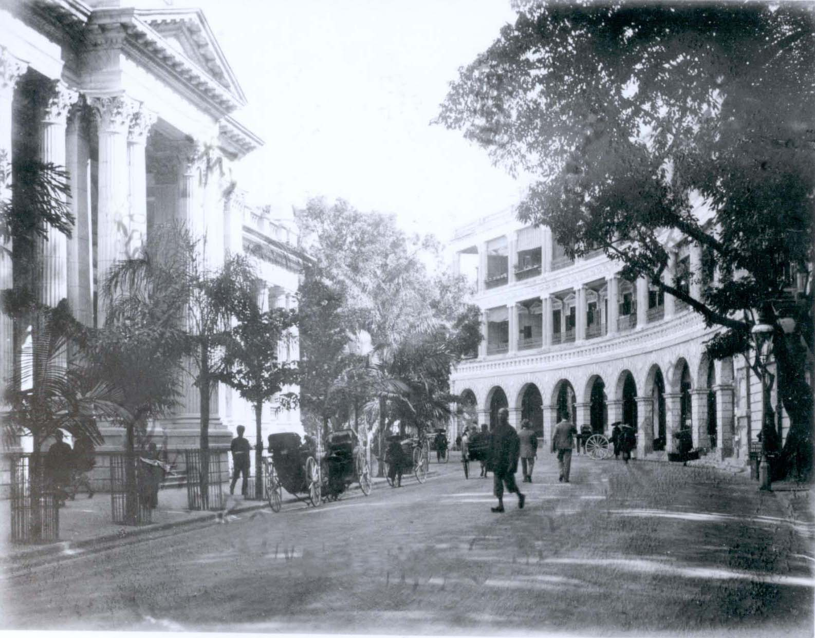 Queen's Road Central in the late C19. Hongkong Bank building on the left, Beaconsfield Arcade (crescent) on the opposite side of the road